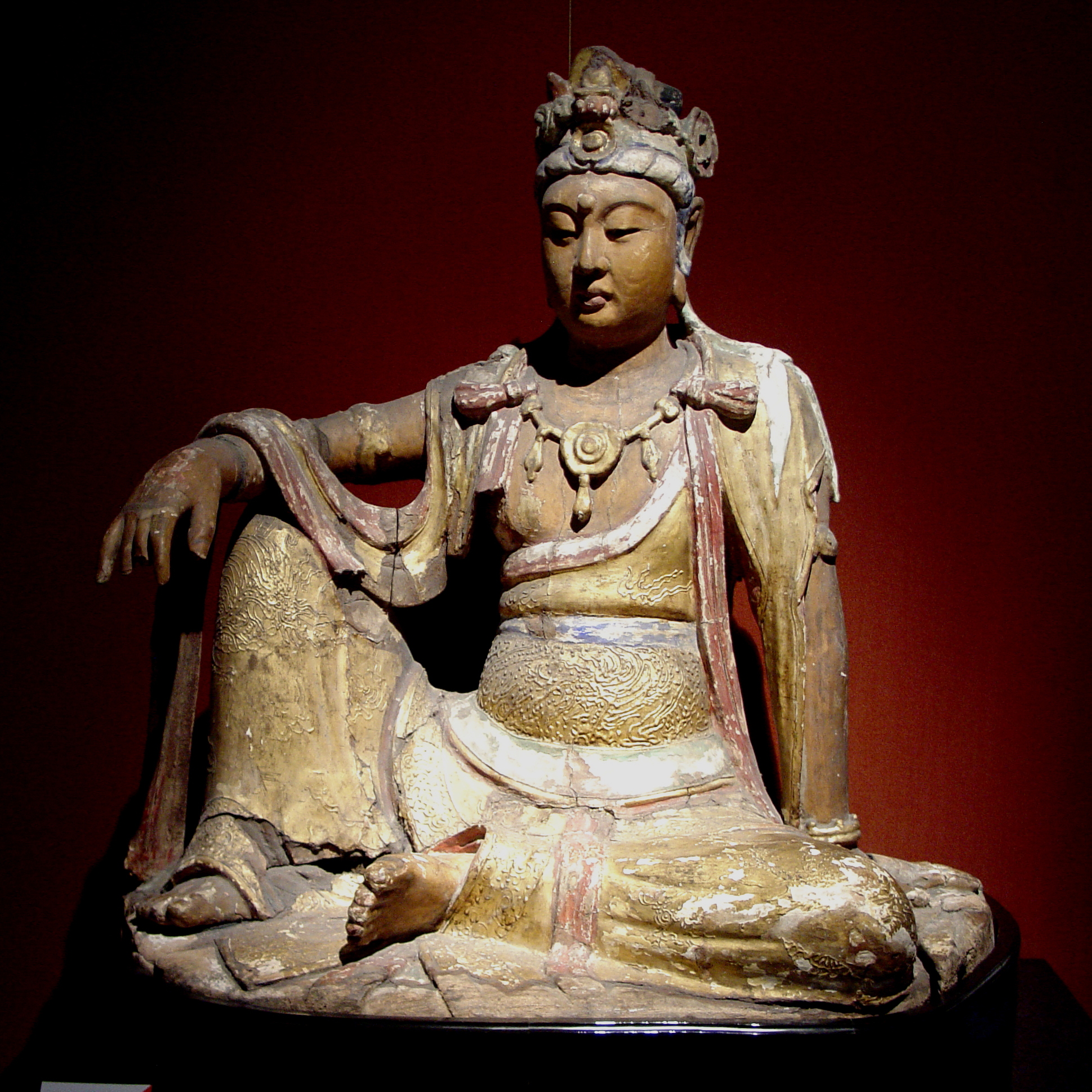 Guanyin. Song Dynasty. Shanghai Museum This image, of gilded and painted wood, shows Guanyin sitting in "Royal Ease."